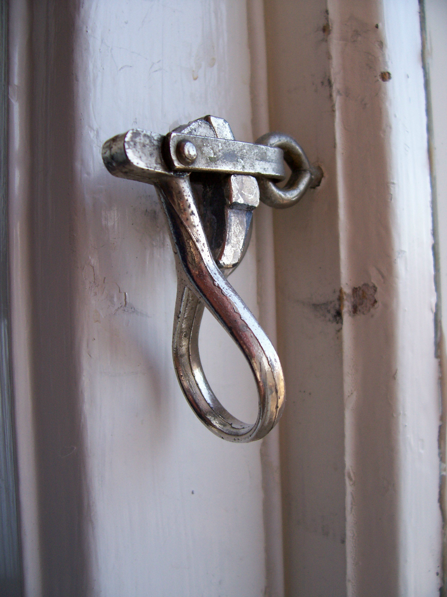 Window latch.